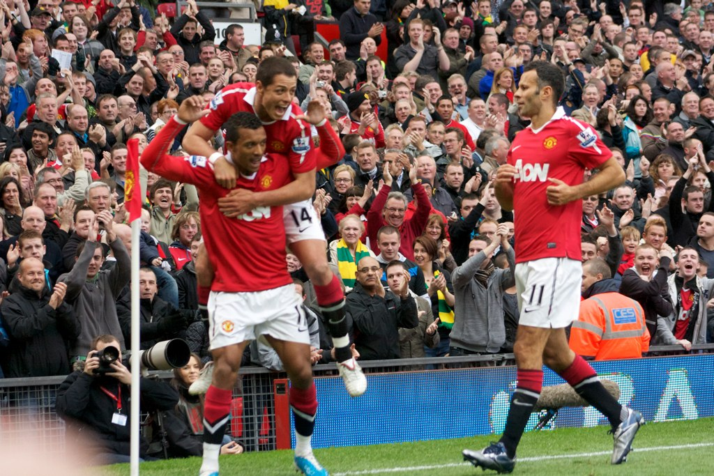 Nani celebrates his goal against West Bromwich Albion with Javier Hernández and Ryan Giggs